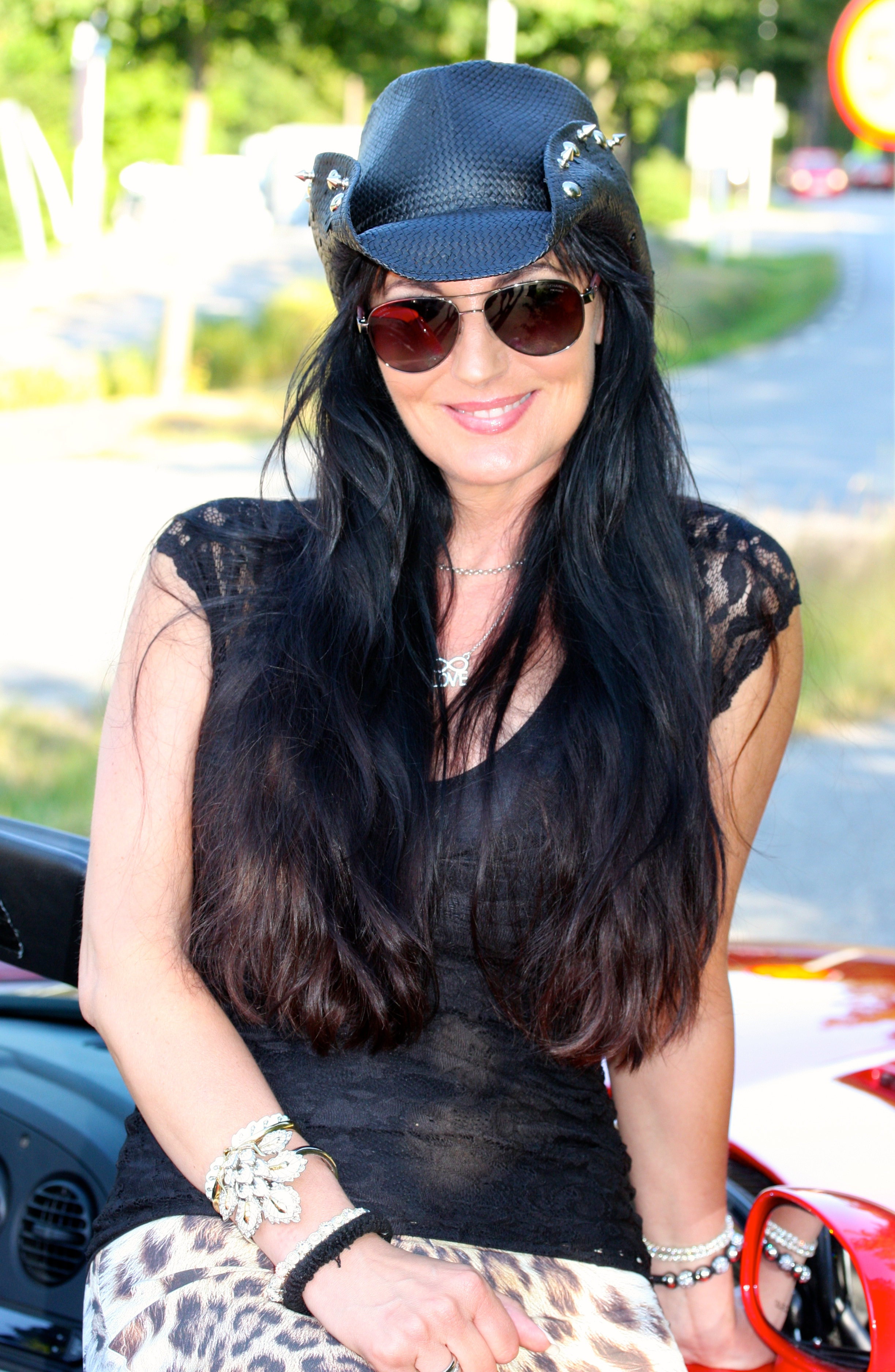 Martina Edoff during video recording